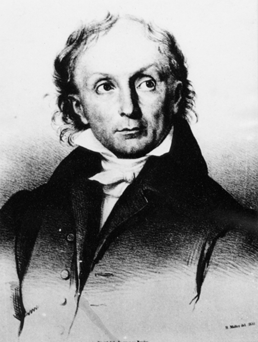 Portrait of Jakob Friedrich Fries (1773-1843).